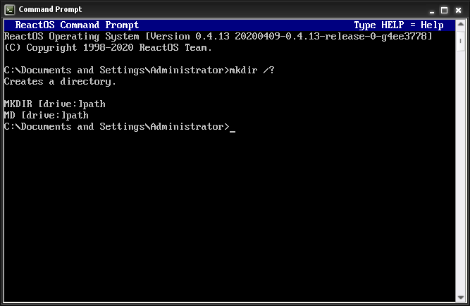 mkdir command on ReactOS-0.4.13